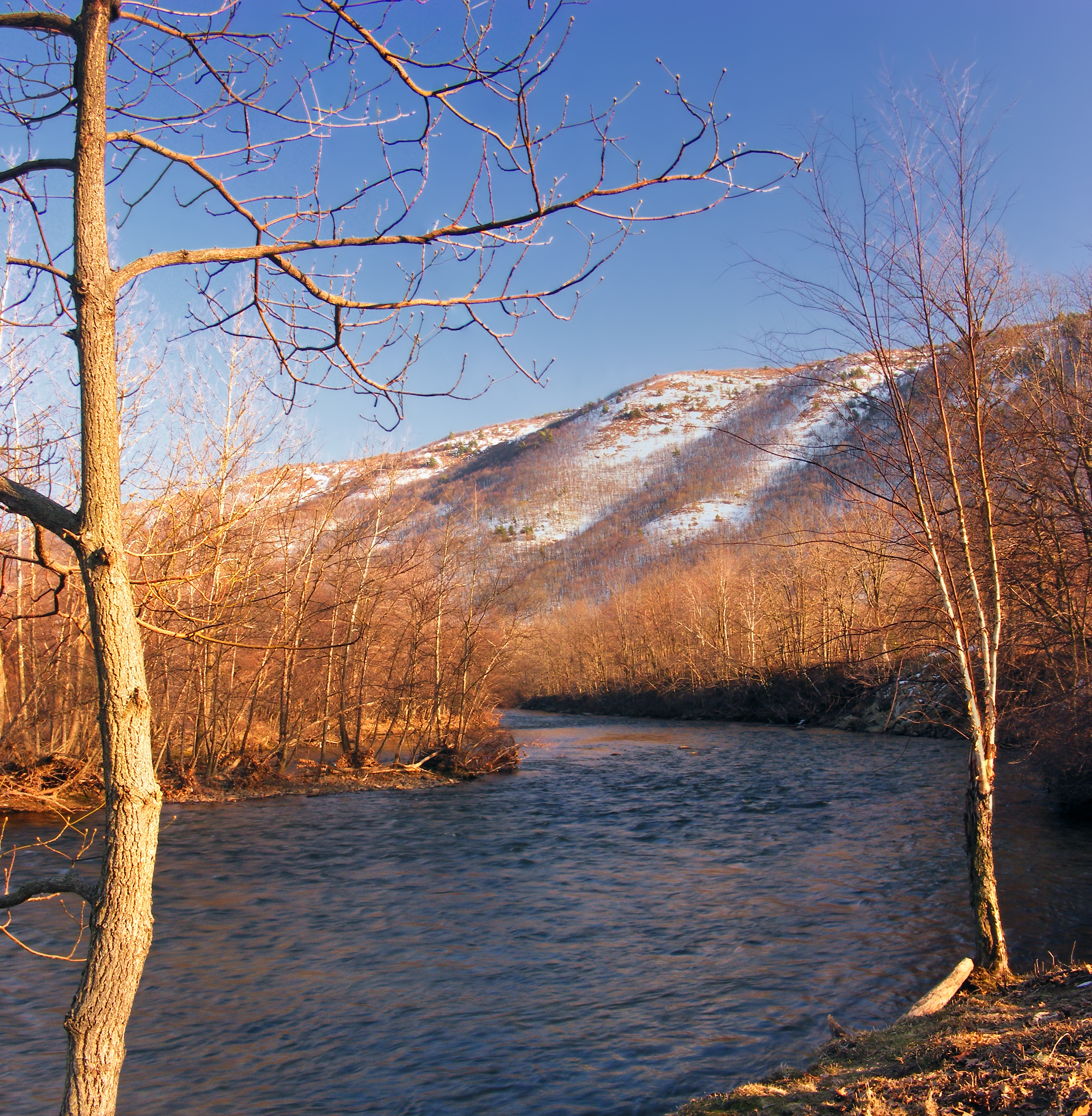 Late-day light, Lehigh River and Blue Mountain, Carbon County, as seen from Riverview Park.